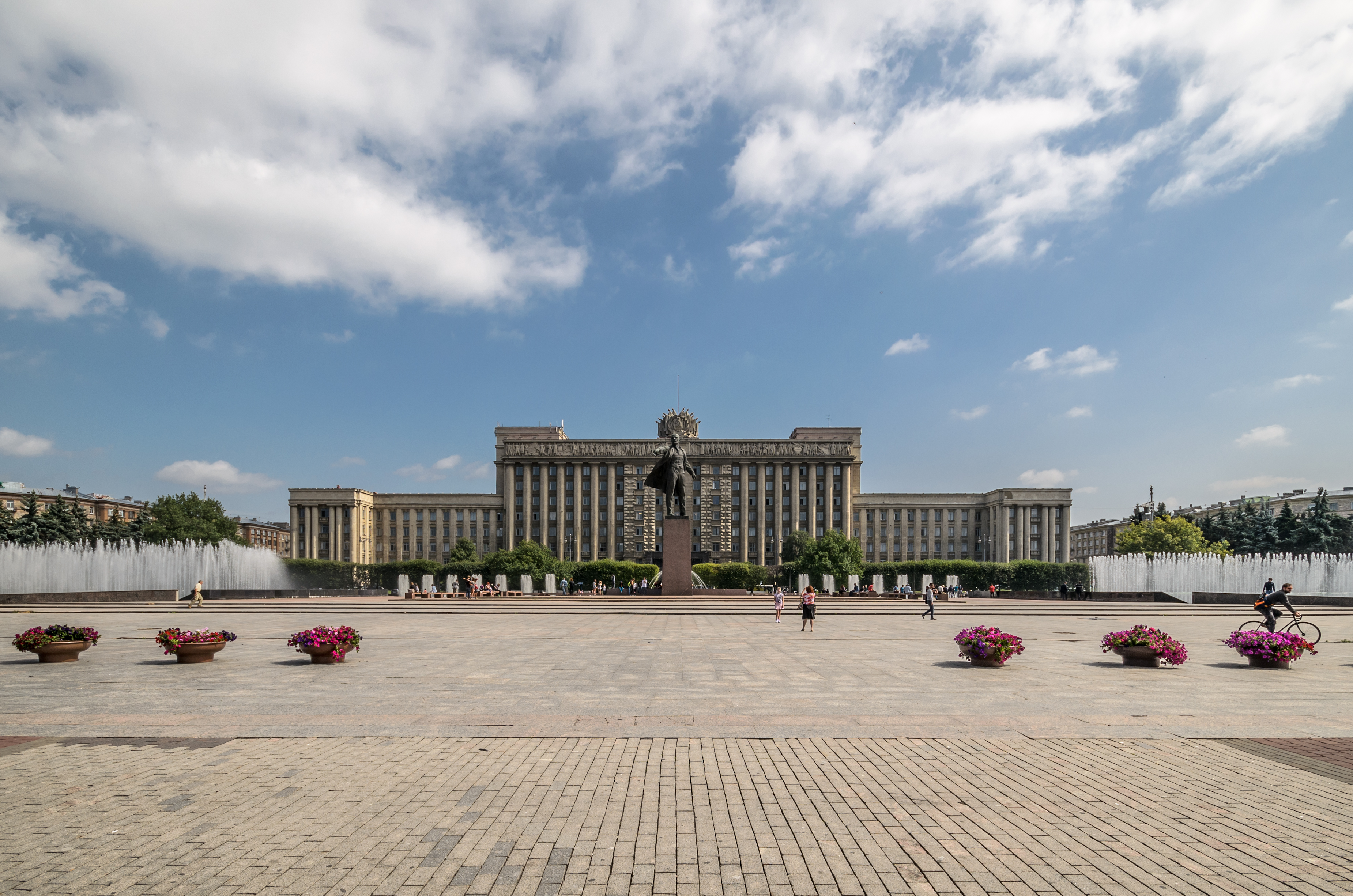 Moskovskaya Square in Saint Petersburg